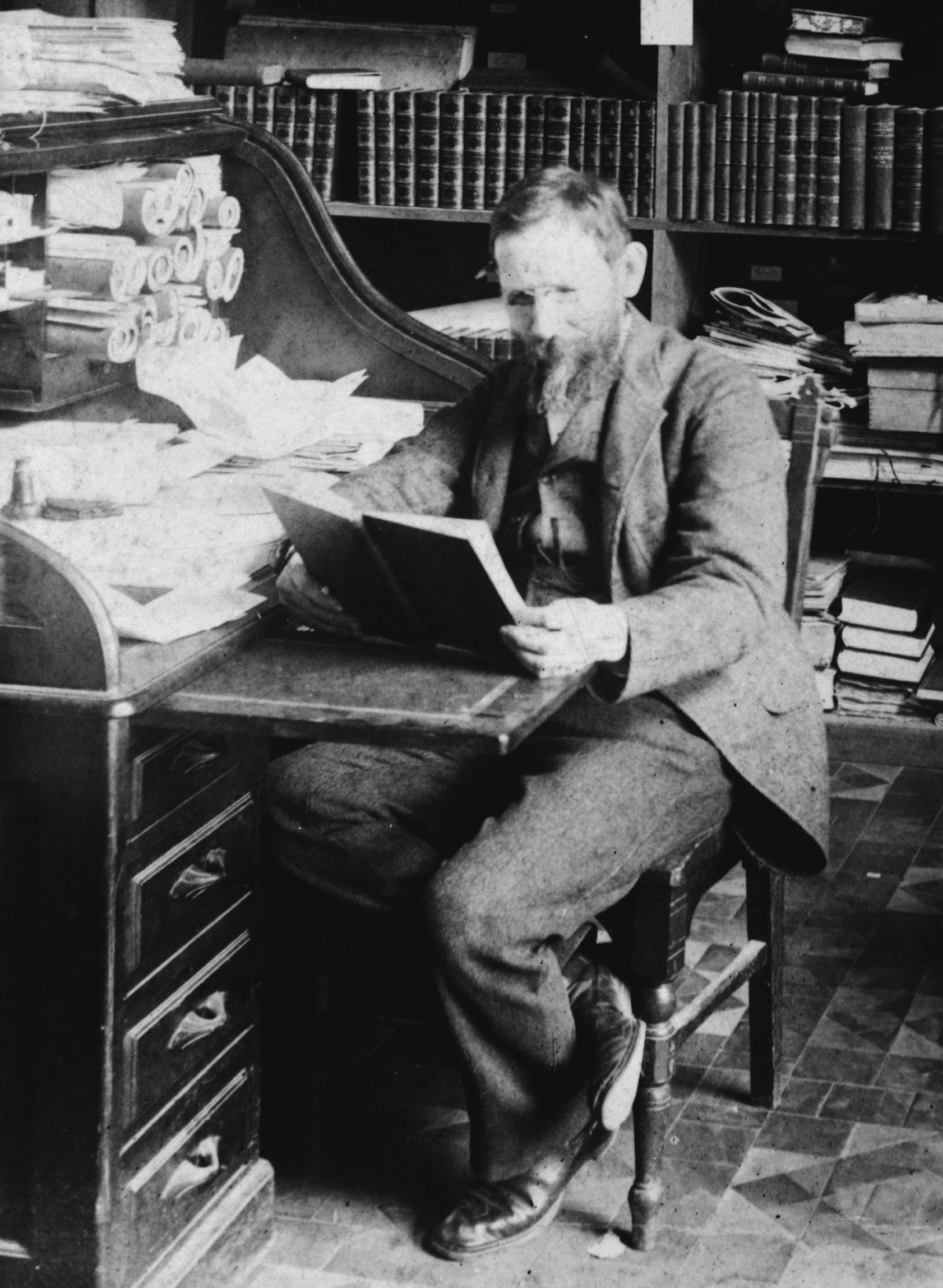 Title: Joel Allen, full-length portrait, seated at desk, facing left Abstract/medium: 1 photographic print.